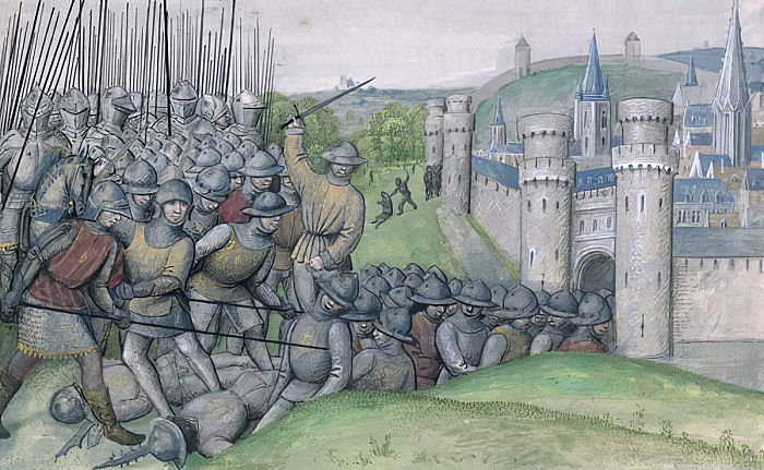 Ms 659 f.282r Louis, Count of Flanders and the town of Bruges are defeated by Filips van Artefelde and the people of Ghent at the Battle of Beverhoutsveld in 1382